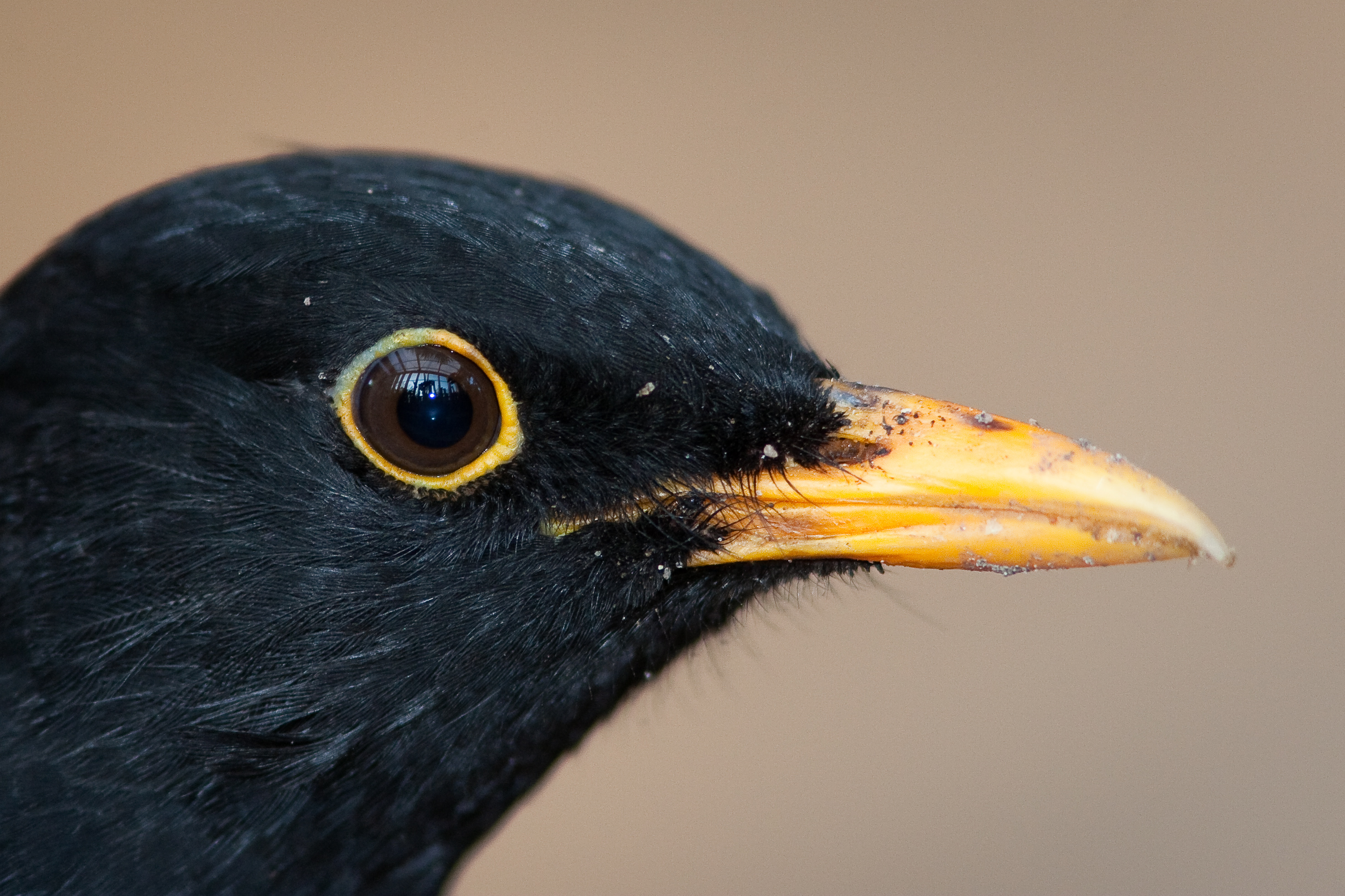 A male Common Blackbird at Dierenpark Amersfoort, Netherlands.